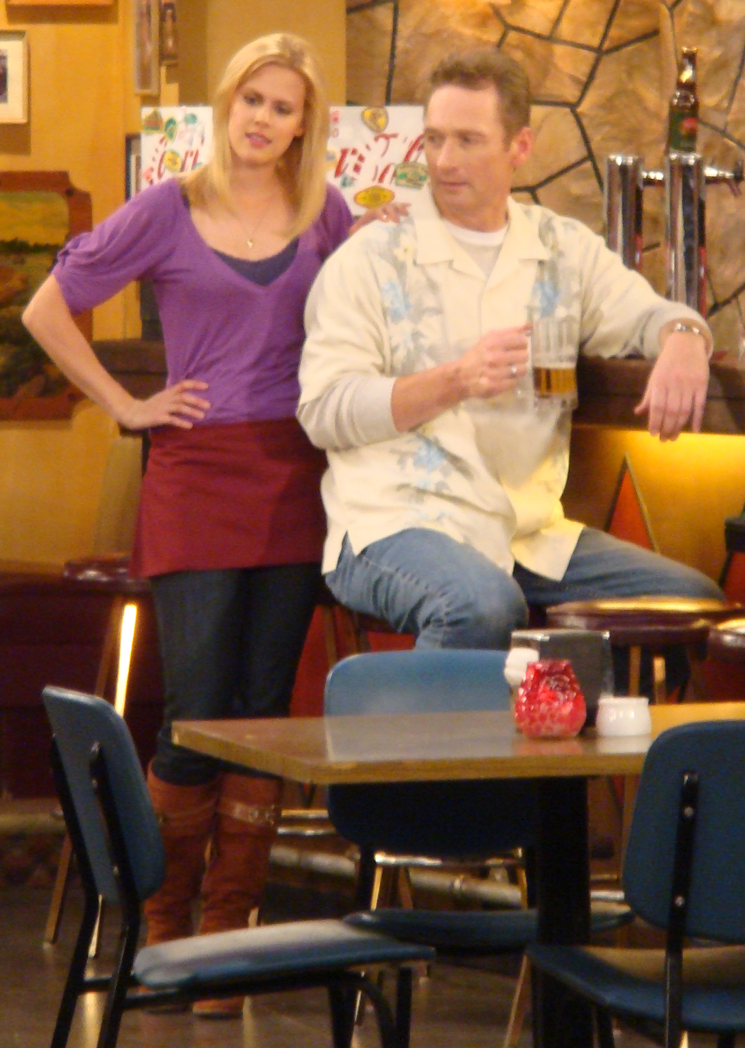 Scene from CBC's Memory Lanes pilot episode, filmed before a live audience at MJA studio in Burnaby, BC - October 30th 2008.